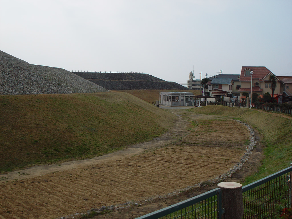 own digital picture, taken March 2006